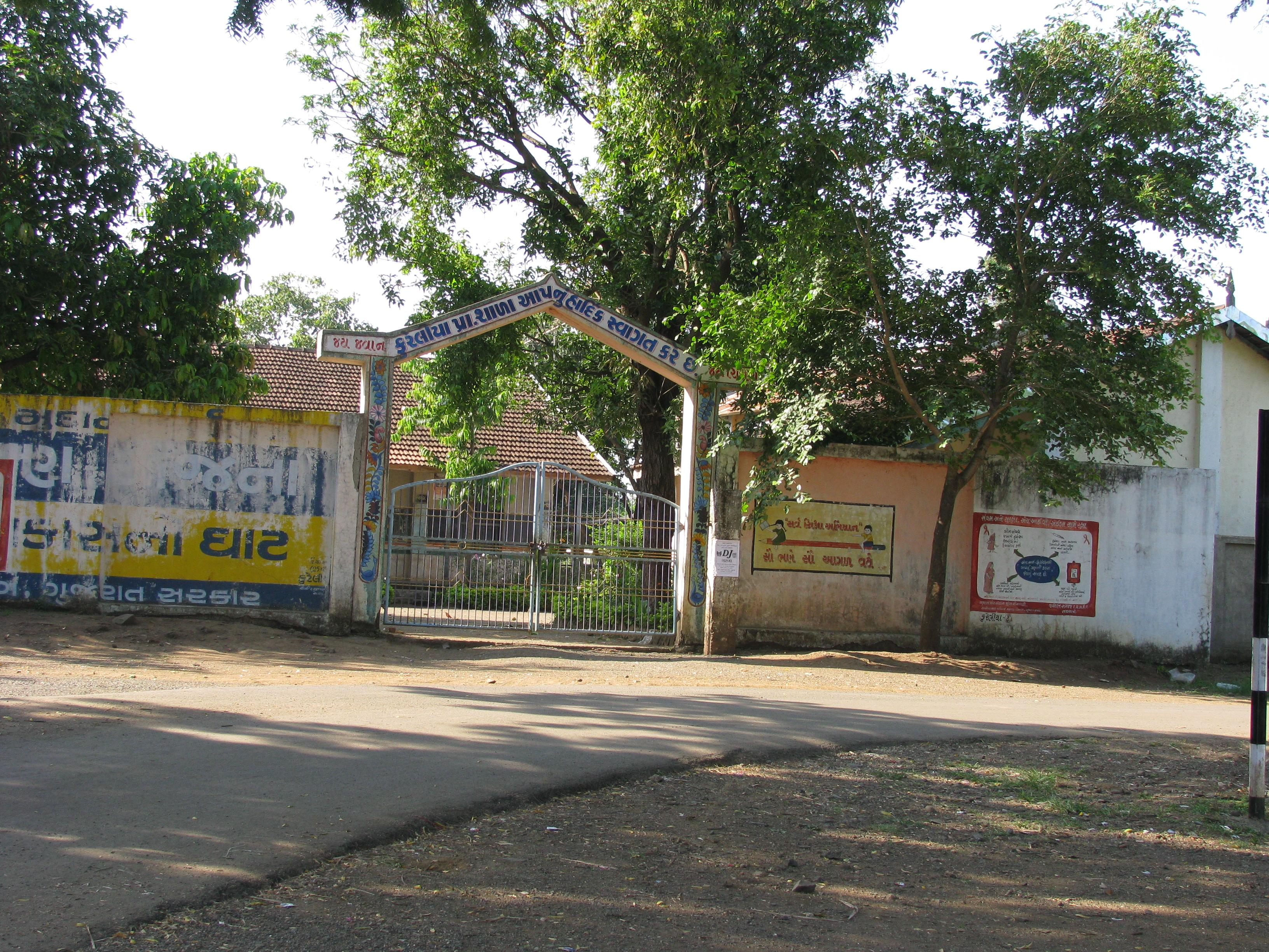 ગુજરાતી: It is my own work.